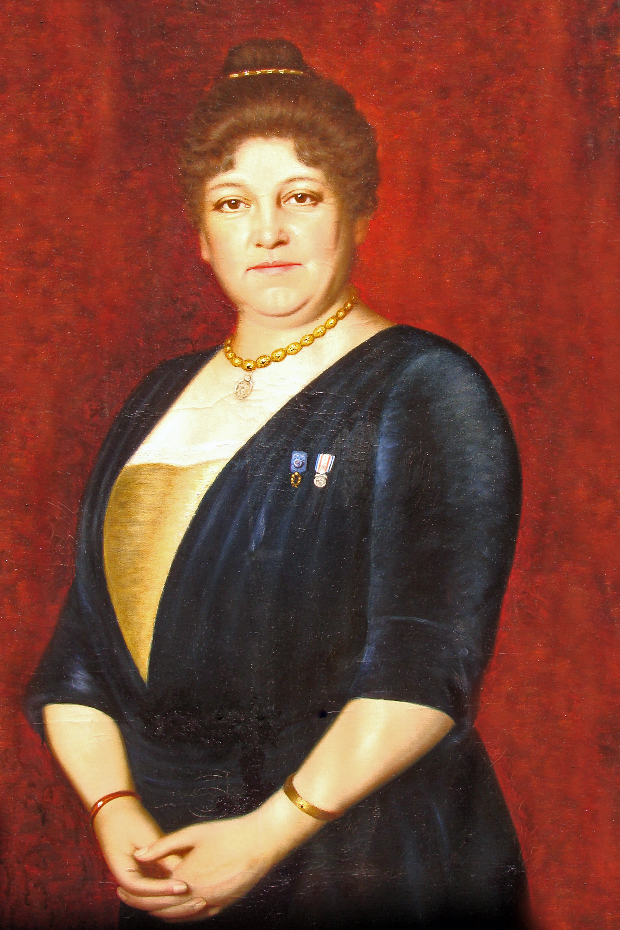 Portrait of Marthe North-Siegfried (1866-1939)